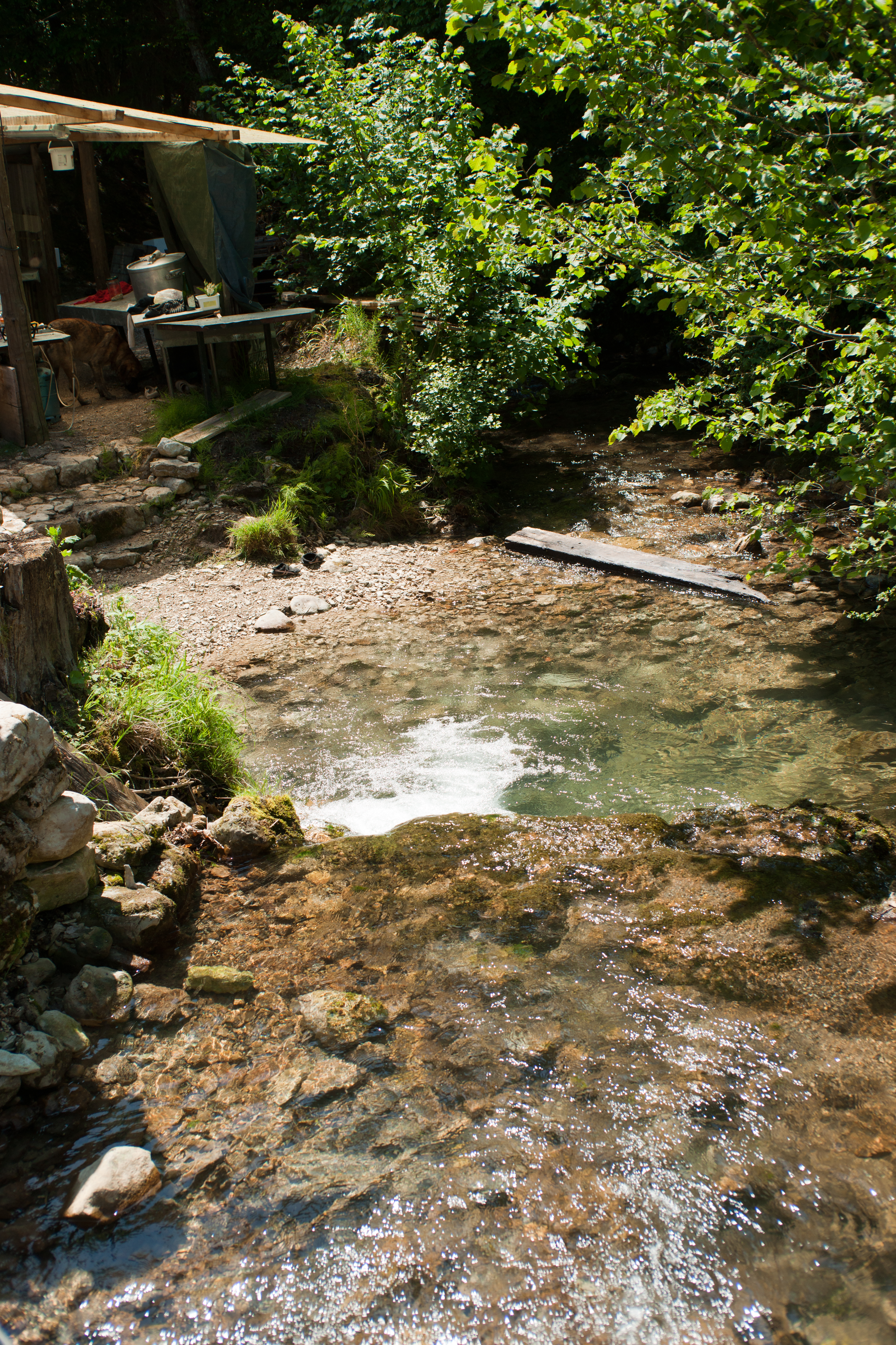 River La Câline, France.